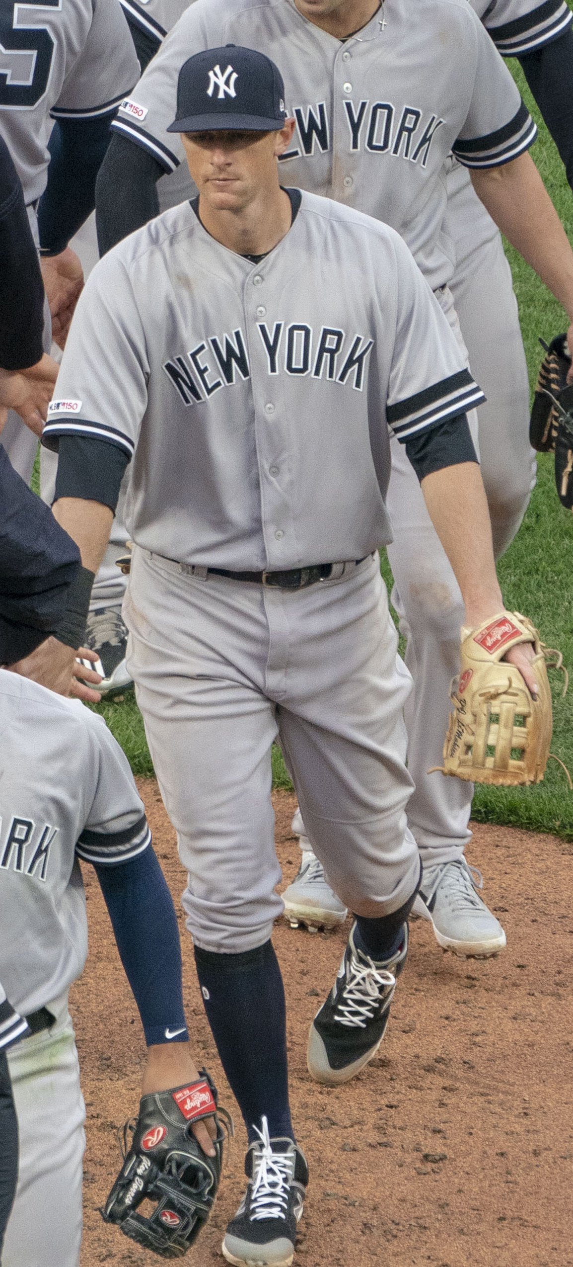 New York Yankees infielder DJ LeMahieu celebrates a victory over the Baltimore Orioles with his teammates at Oriole Park at Camden Yards in Baltimore, Maryland, on April 4, 2019